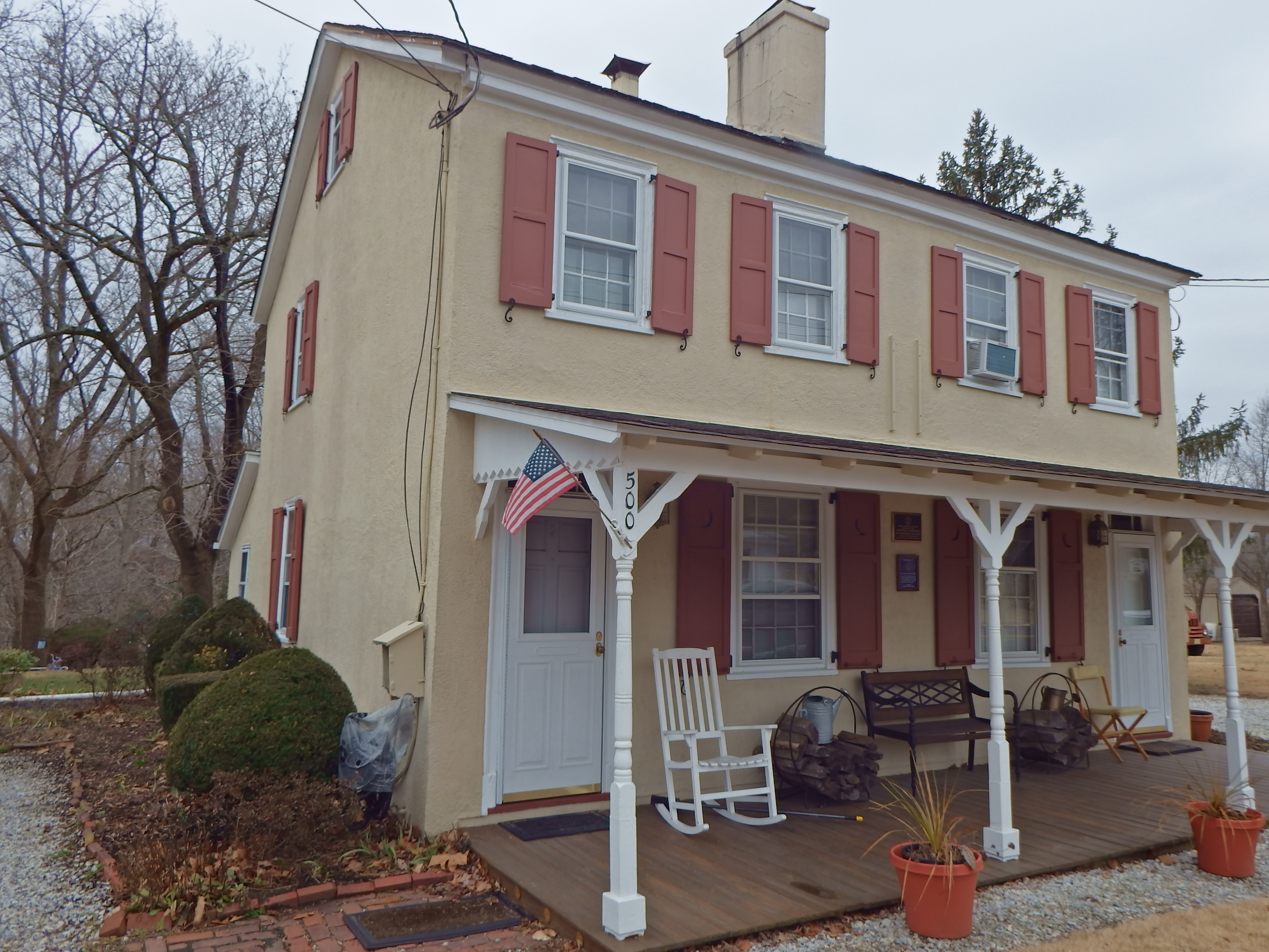 On the National Historic Register of Places. NRHP reference #75001127. Built around 1725. Located on Good Intent Road in Gloucester Twp., Camden County, NJ. There is a historic cemetery in the back yard. I have photos of the cemetery too